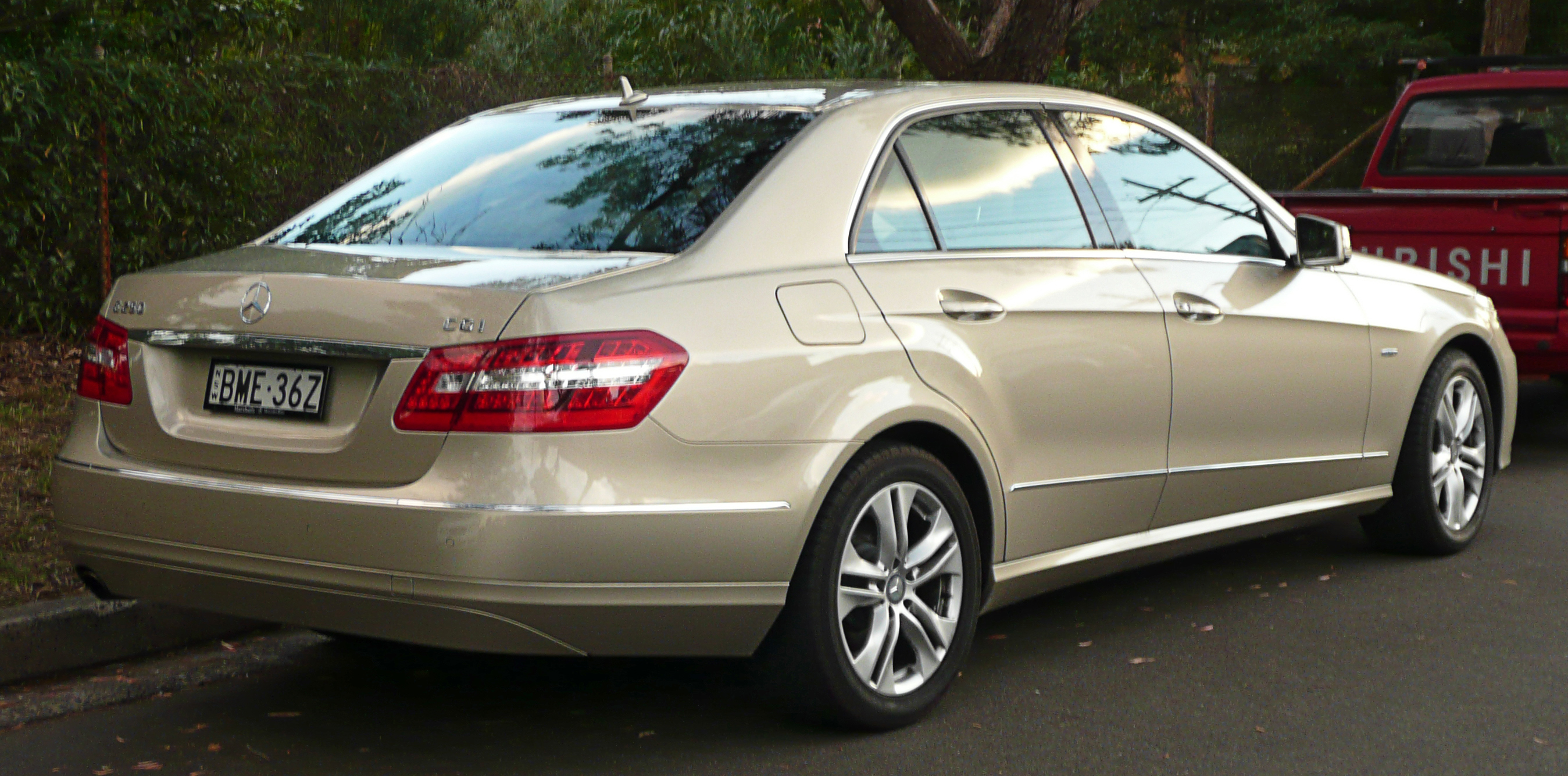 2009 Mercedes-Benz E 250 CGI (W 212) Avantgarde sedan. Photographed in Kirrawee, New South Wales, Australia.